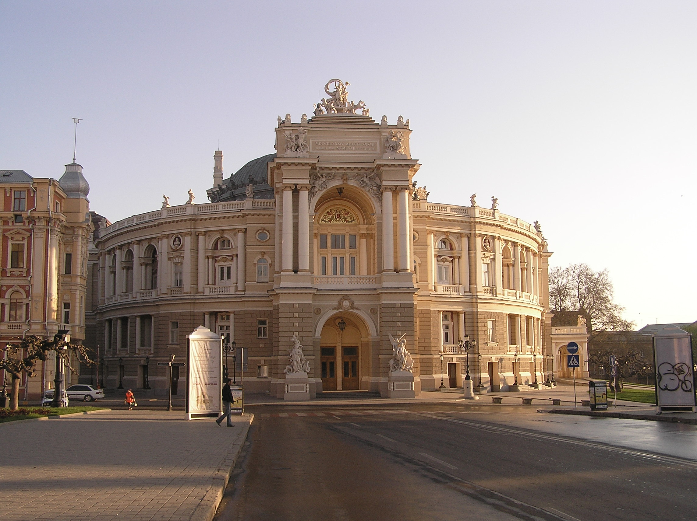 Odessa Opera and Ballet Theatre